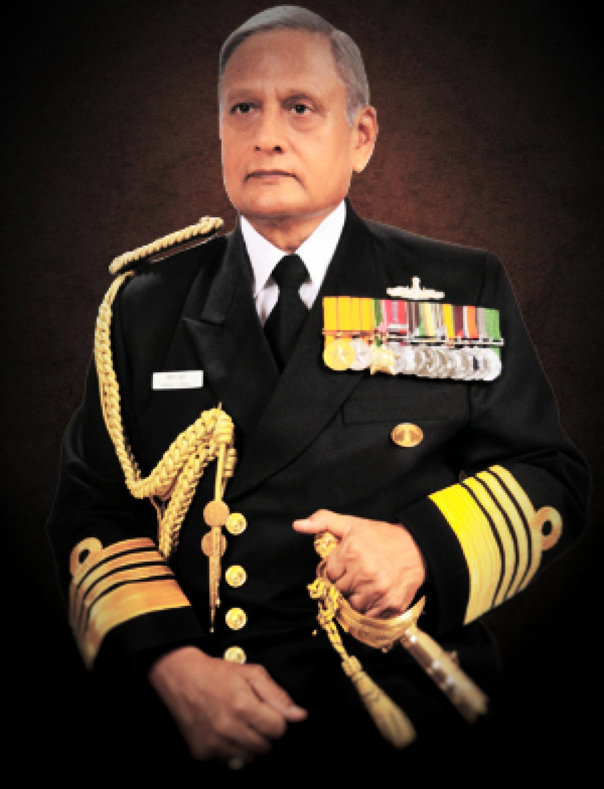 Portrait Admiral Verma